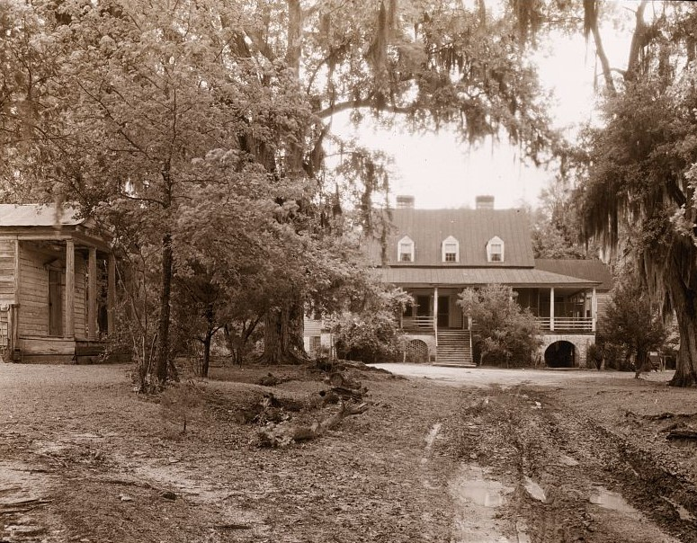 Title ["The Eutaw," William Henry Sinkler house, Eutawville vicinity, Berkeley County, South Carolina. Drive to entrance] Contributor Names Johnston, Frances Benjamin, 1864-1952, photographer Created / Published [1938] Subject Headings - Houses--South Carolina--1930-1940 - Driveways--South Carolina--1930-1940 - Spanish moss--South Carolina--1930-1940 - Trees--South Carolina--1930-1940 Format Headings Lantern slides--1930-1940. Notes - Slide for lecturing on "Tales Old Houses Tell." - Title and date based on same image in the Carnegie Survey of the Architecture of the South, LC-J7-SC-1399, with additional information from Sam Watters, 2011. - Forms part of: Garden and historic house lecture series in the Frances Benjamin Johnston Collection (Library of Congress). - Formerly in Box 27. Medium 1 photograph : glass lantern slide, sepia-toned ; 3.25 x 4 in. Call Number/Physical Location LC-J717-X106- 1 [P&P] Repository Library of Congress Prints and Photographs Division Washington, D.C. 20540 USA Digital Id ppmsca 16571 //hdl.loc.gov/loc.pnp/ppmsca.16571 Library of Congress Control Number 2008675871 Reproduction Number LC-DIG-ppmsca-16571 (digital file from original item) Rights Advisory No known restrictions on publication. Online Format image Description 1 photograph : glass lantern slide, sepia-toned ; 3.25 x 4 in. LCCN Permalink